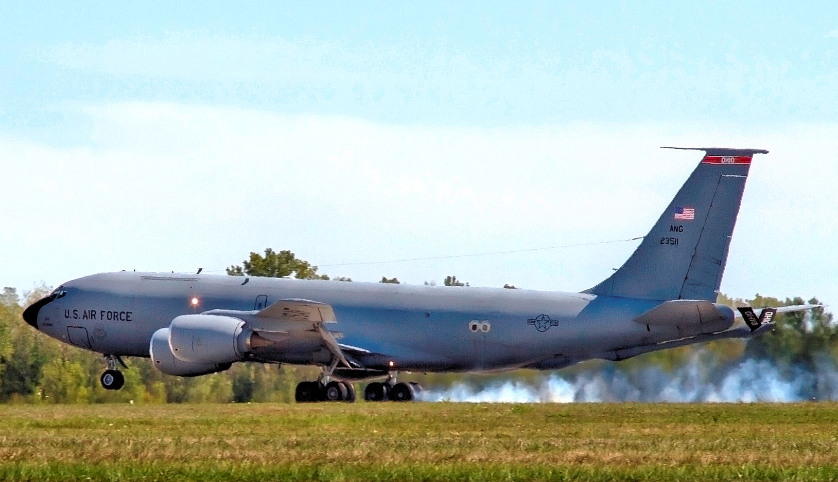 A KC-135 touches down after taking part in the “Fini-flight” for Brig. Gen. Mark Stephens at Rickenbacker Air National Guard Base on Sept. 16, 2012. The “Fini-flight” is a commander’s last flight as a wing commander of their base. (U.S. Air Force photo by Staff Sgt. Zachary Wintgens)